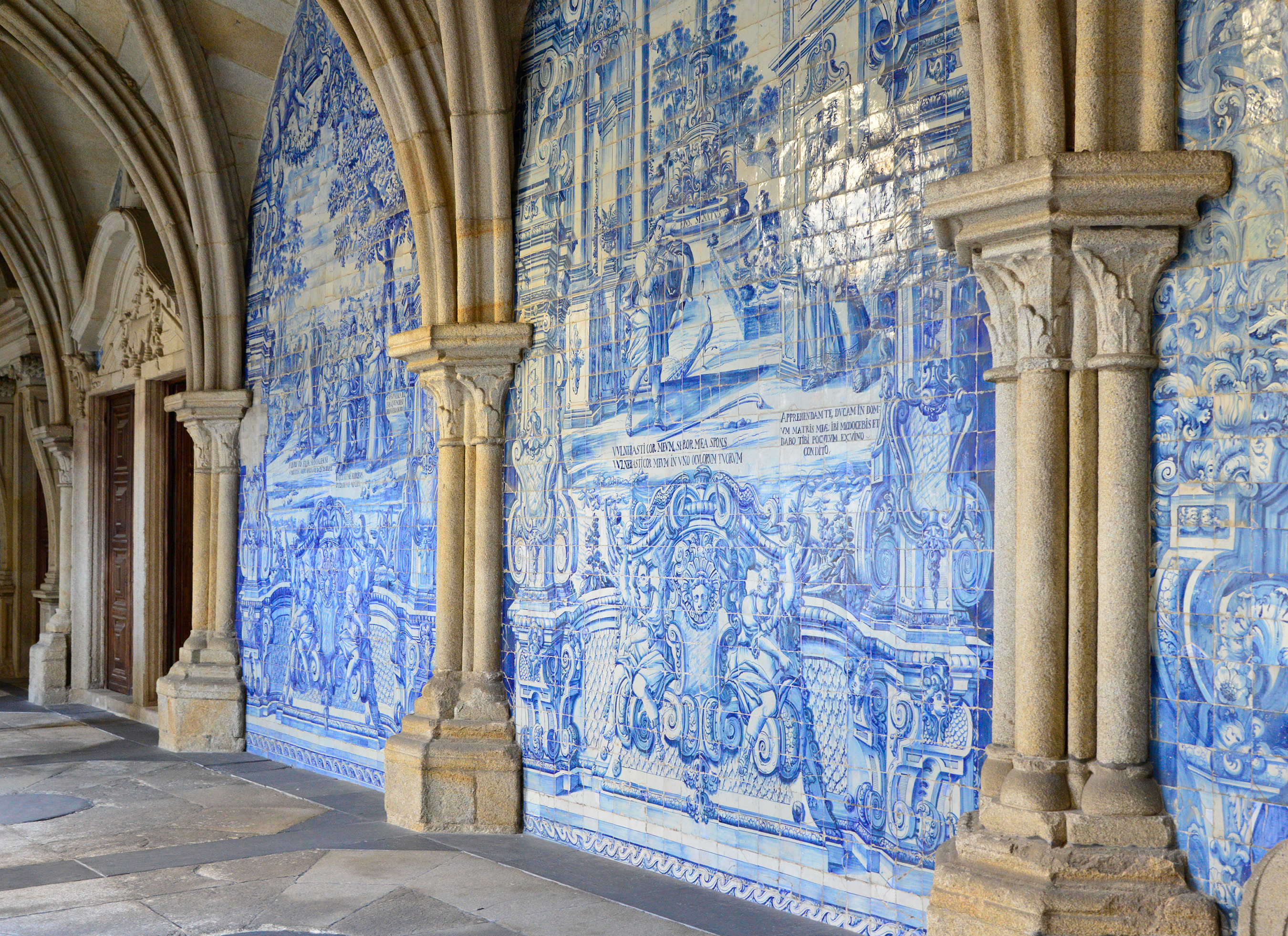 Azuelo Mural, Porto Cathedral